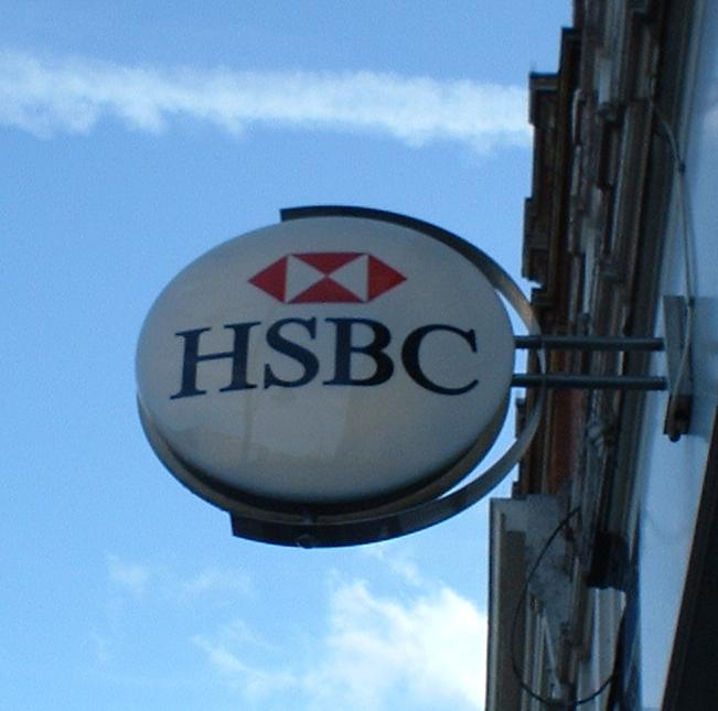 HSBC logo on building. Taken by C Ford - march 04.